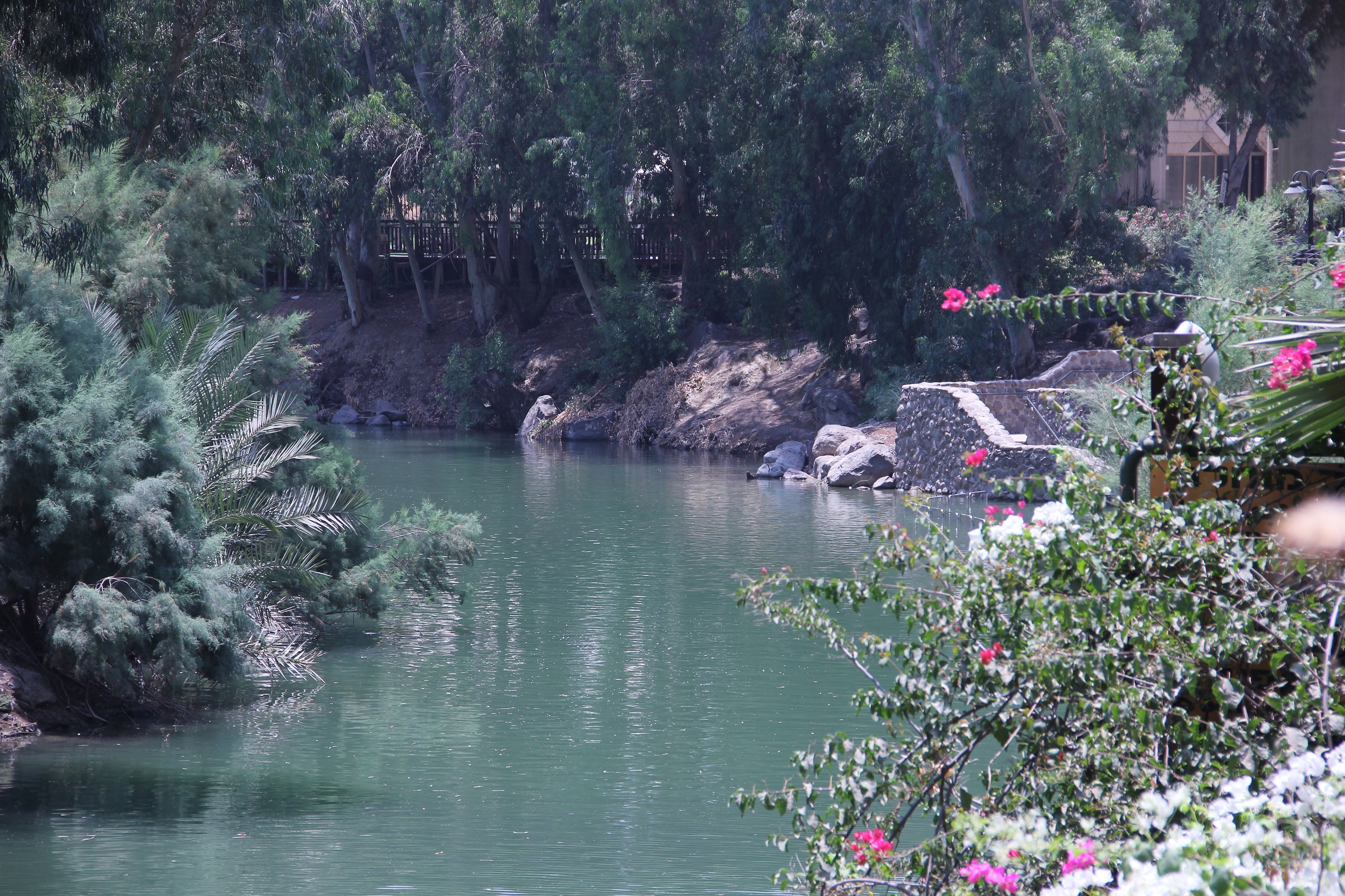 JORDEN River, Geography of Israel